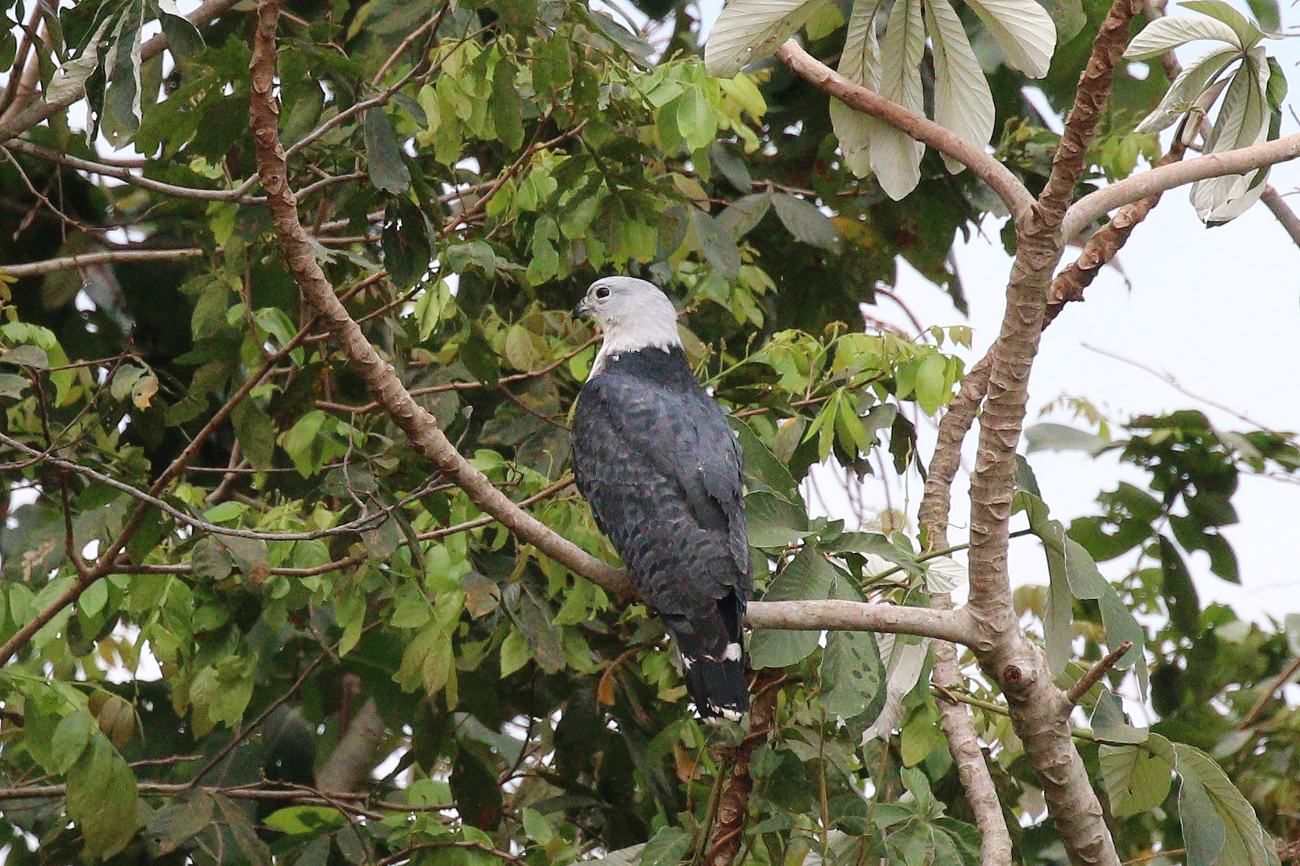 Grey-headed kite (Leptodon cayanensis) immature, light morph, the Pantanal, Brazil